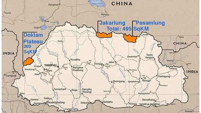 bhutan china dispute